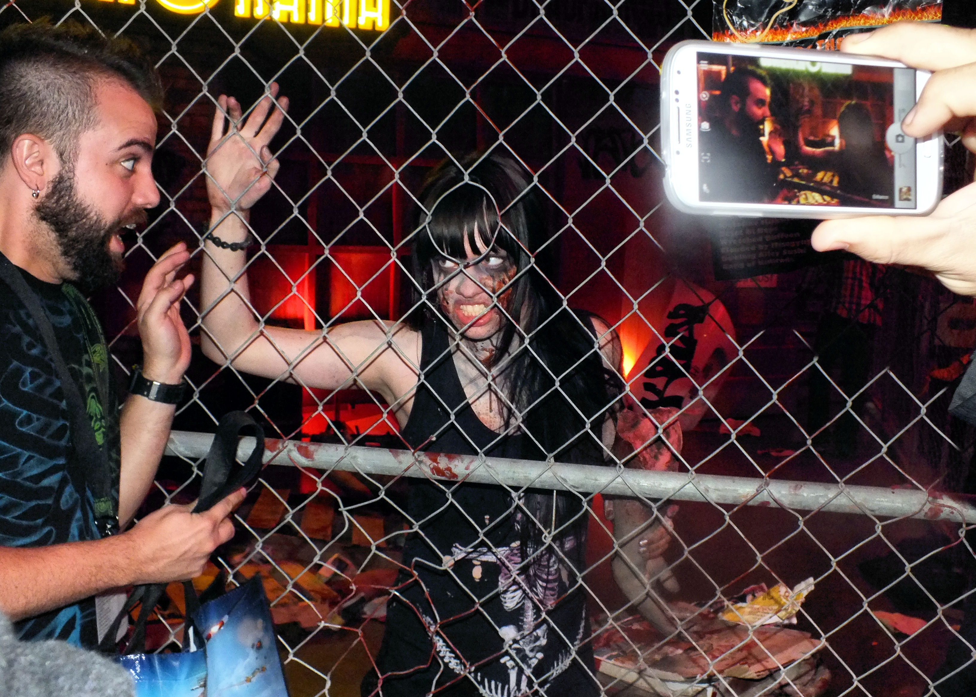 Taken on June 12, 2013 Dowtown Carrier Annex, Los Angeles, CA, US Fujifilm FinePix HS20EXR